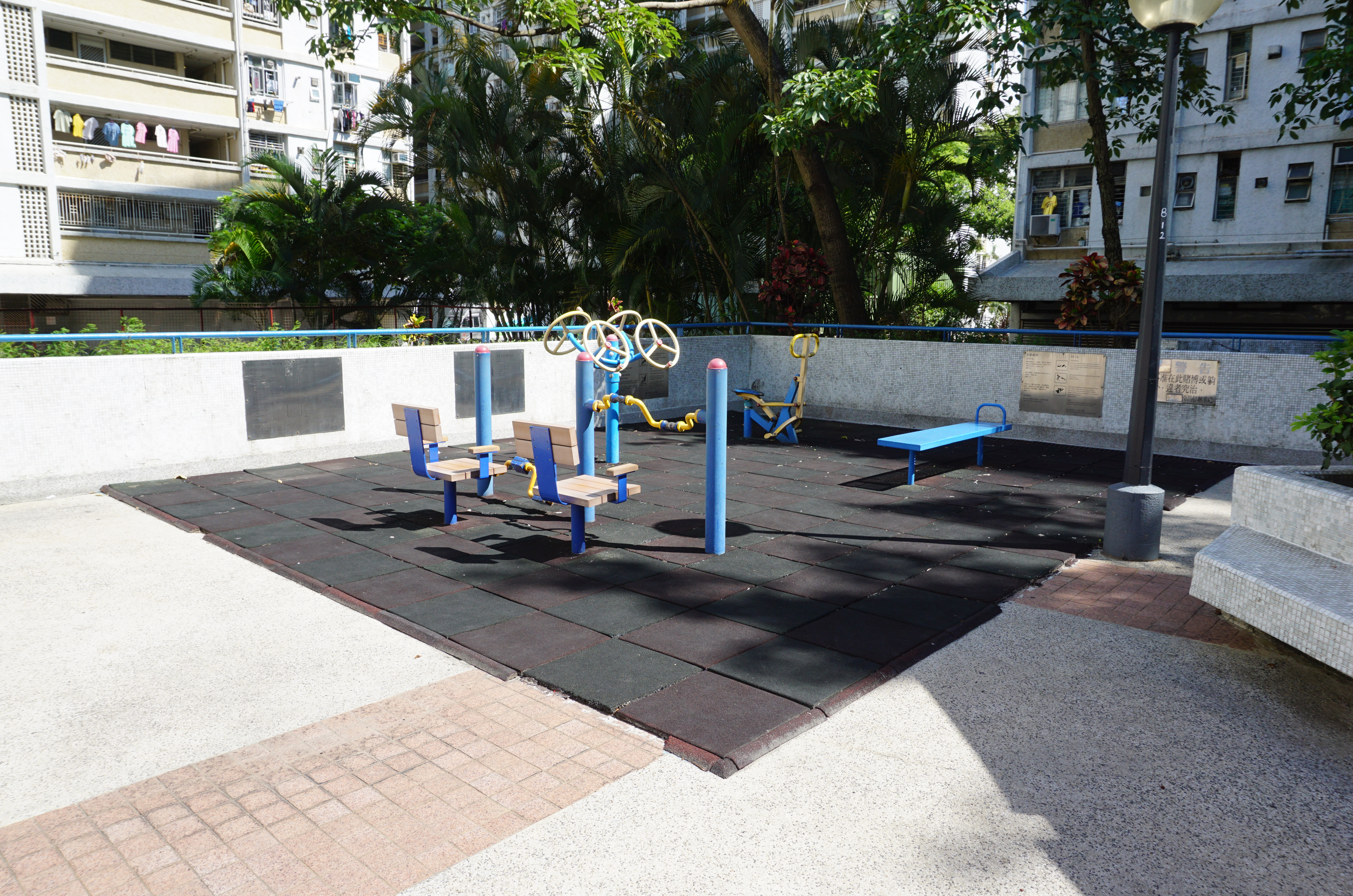 Nam Cheong Estate in Nam Cheong, Hong Kong.